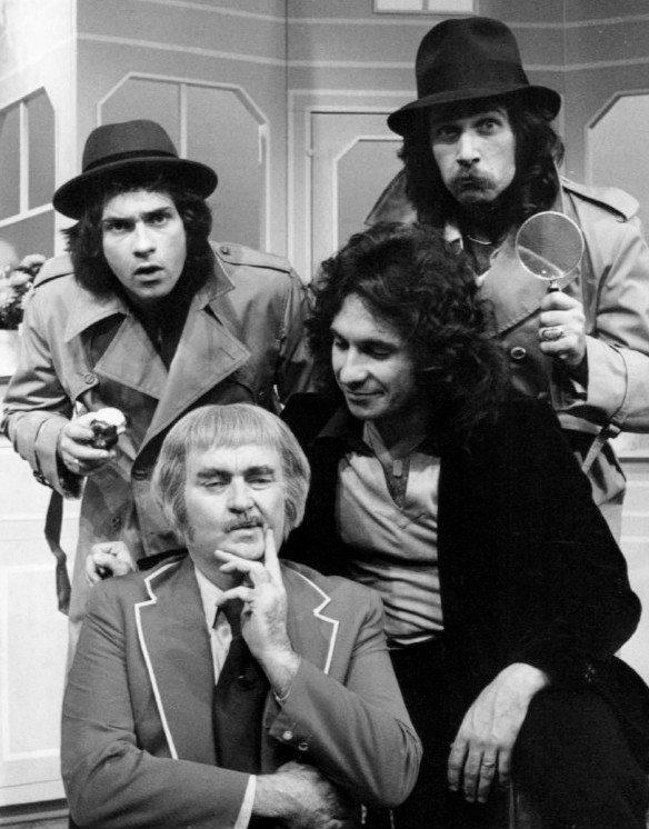 Photo of the musical group the Hudson Brothers and Bob Keeshan as they visit the television program Captain Kangaroo.